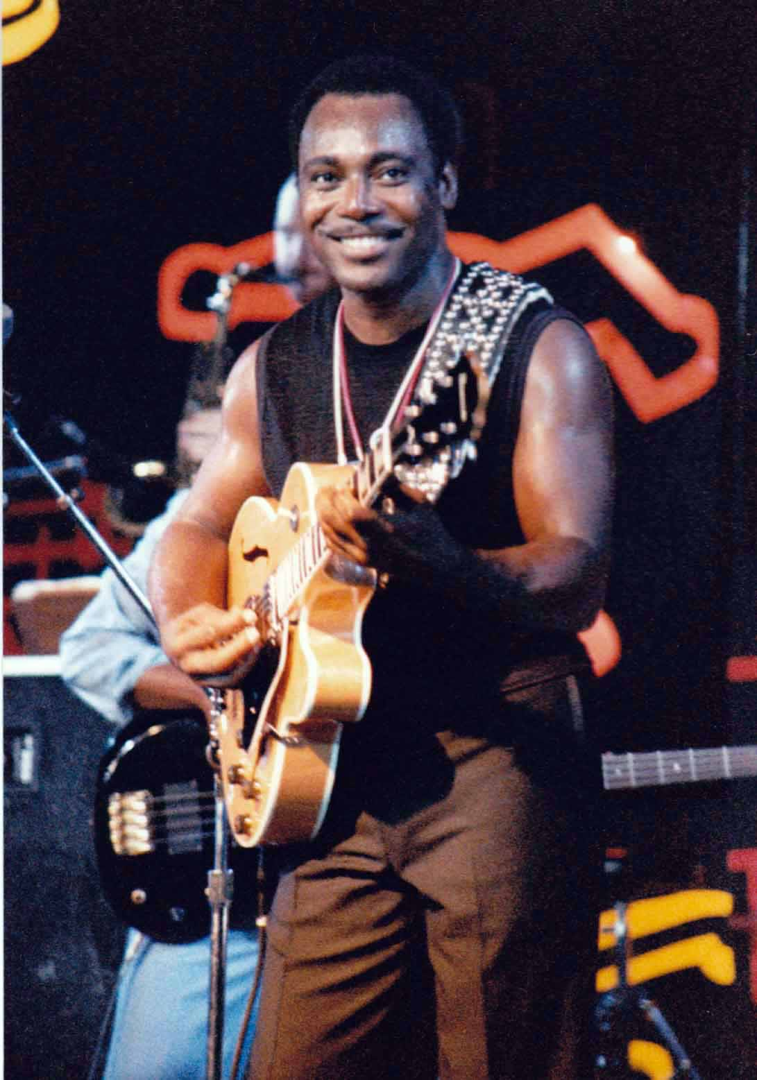 Georges Benson in 1986 at Montreux Jazz Festival.